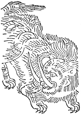 Taowu (梼杌, Chinese Mountain demon) from the Wakan Sansai Zue (和漢三才図会)